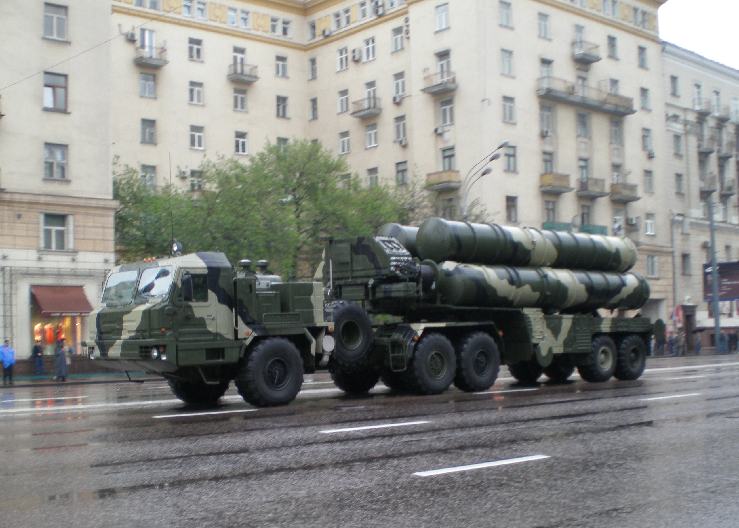 A TEL of a S-400 Triumf during a Victory Day Anniversary Parade Rehearsal on May 9, 2009 in Moscow.